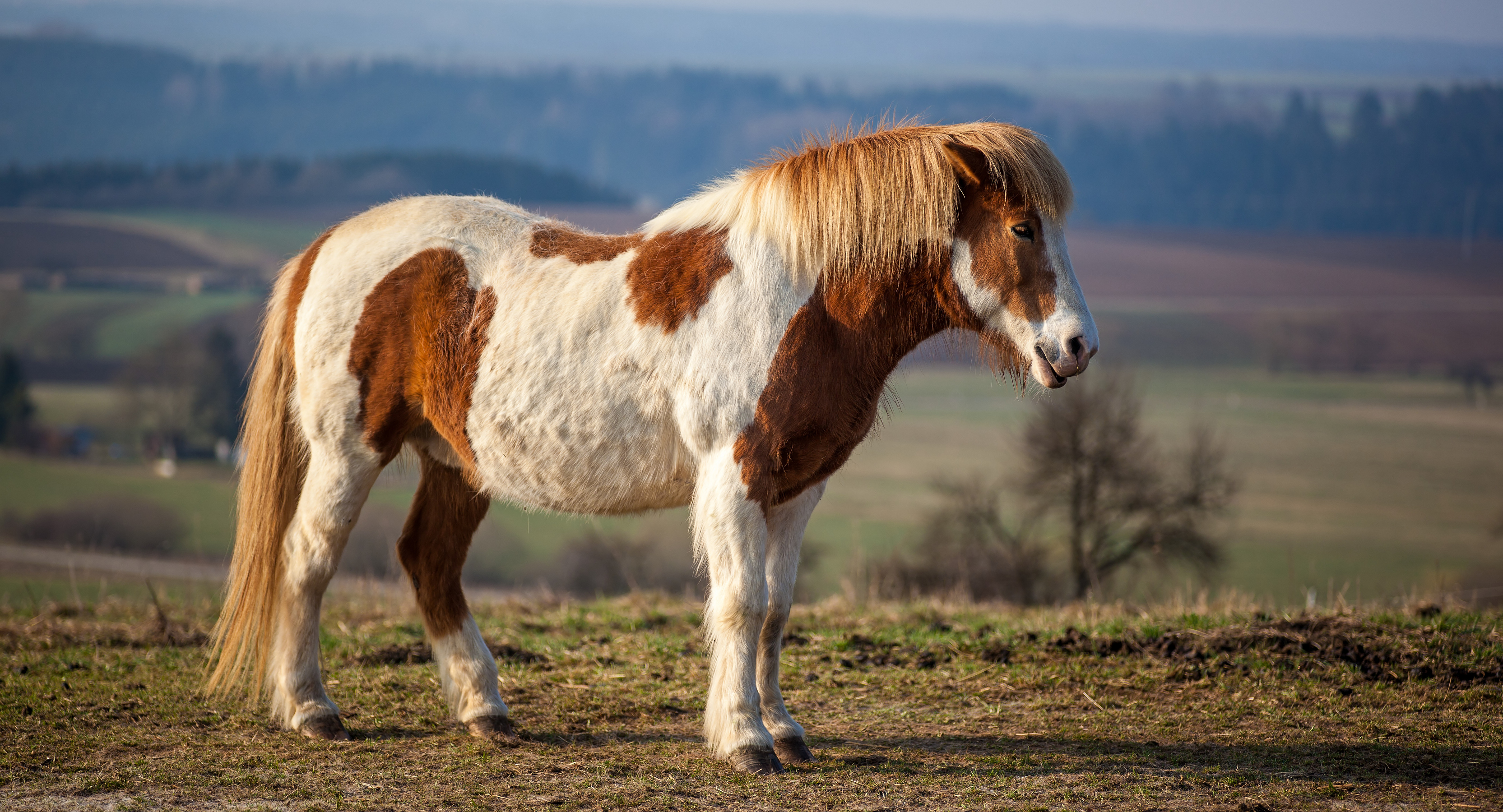 Icelandic Horse